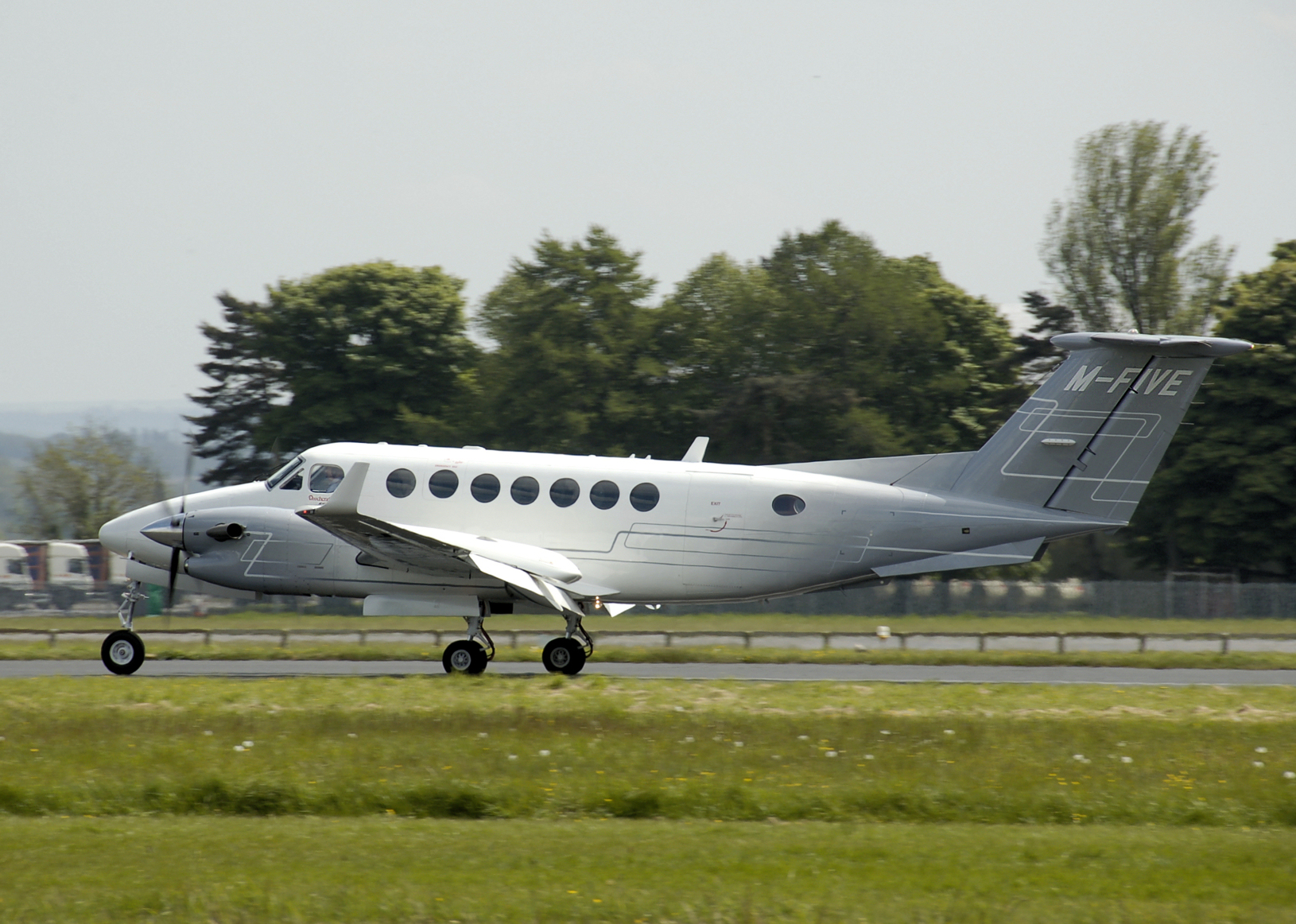 Beechcraft B300 Super King Air 350 (M-FIVE, registered in the Isle of Man) at the Great Vintage Flying Weekend, Kemble Airport, Gloucestershire, England.